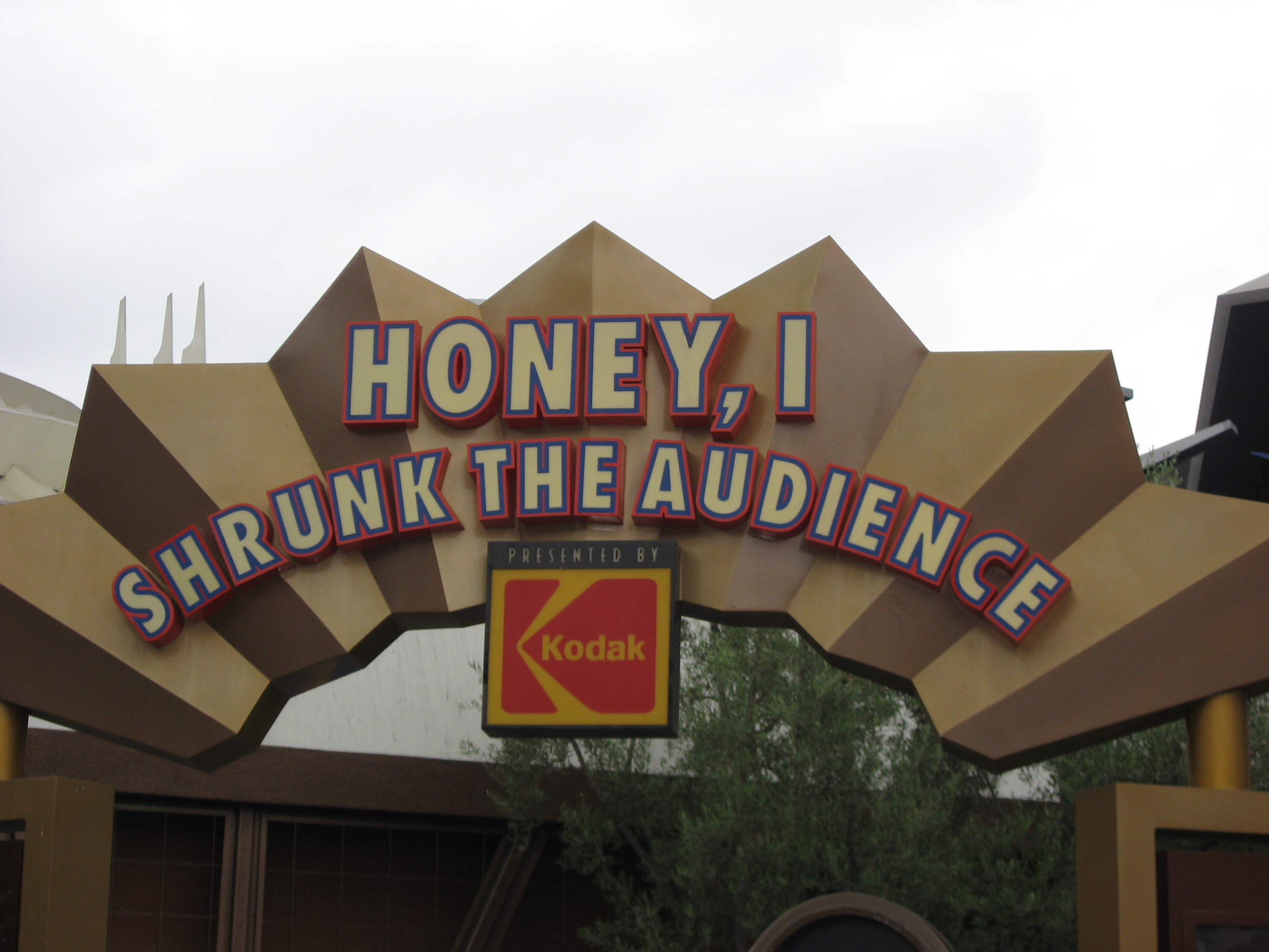 Honey, I Shrunk the Audience sign at Disneyland